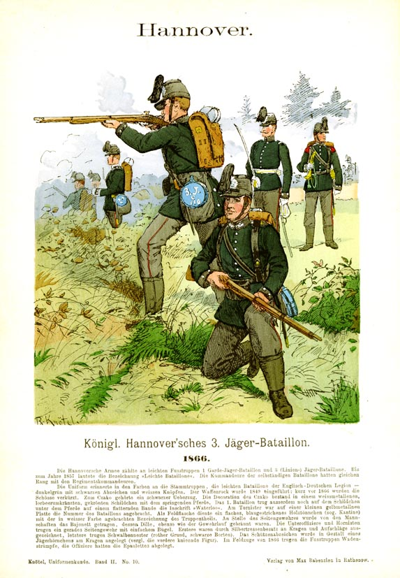 Hannover. Königlich Hannoversches 3. Jäger-Bataillon. 1866